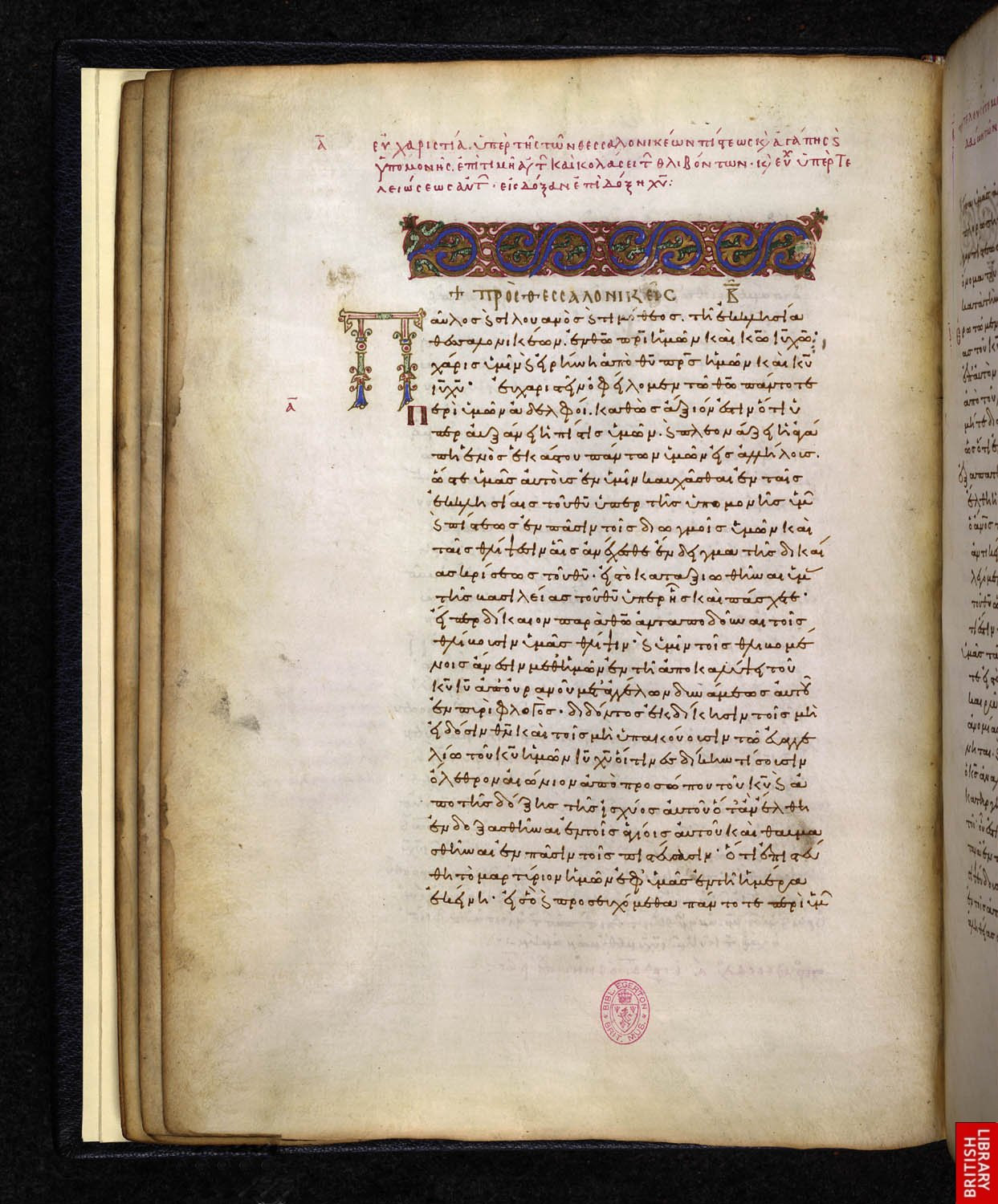 Folio 18 recto, beginning of the First Epistle to Thessalonians, decorated headpiece